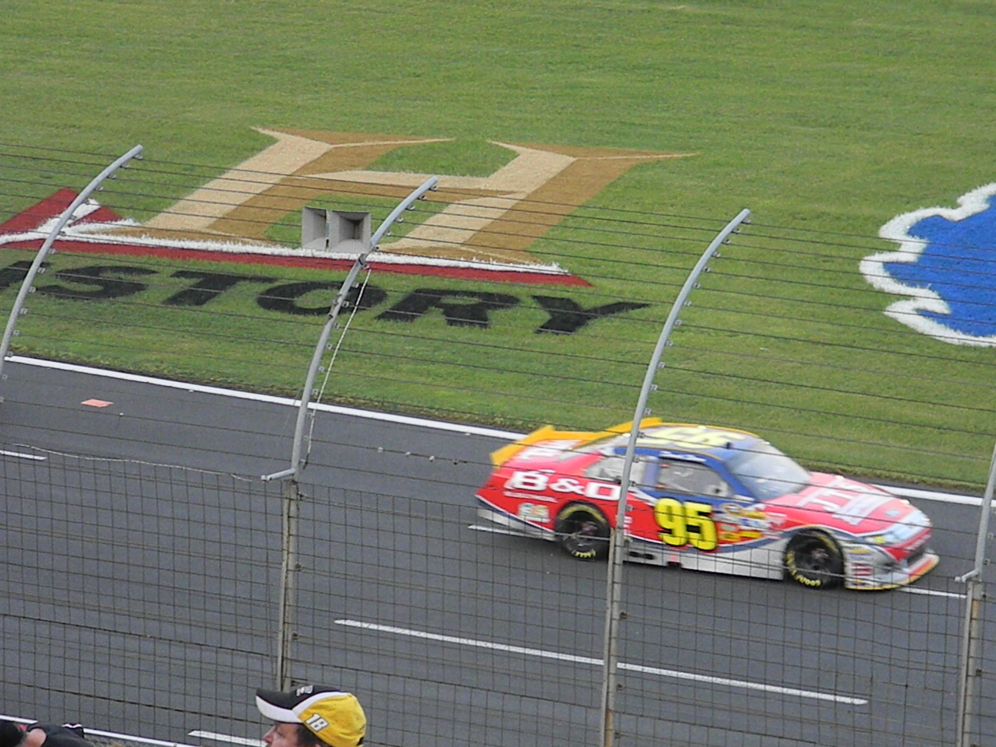 Title: David Starr drives the No. 95 Ford for Leavine Fenton Racing in the Sprint Showdown at Charlotte Motor Speedway in 2011.